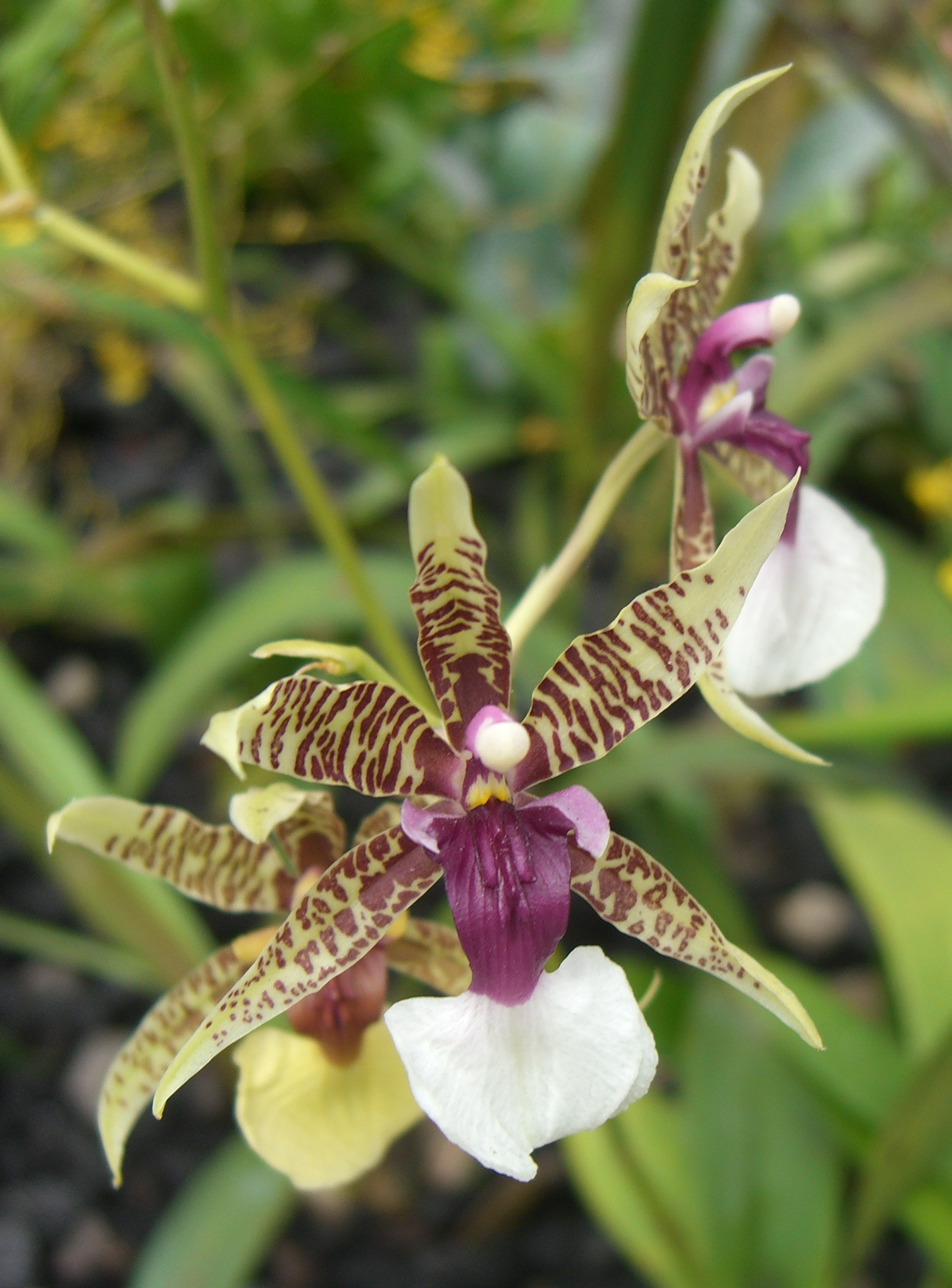 Please report references to .